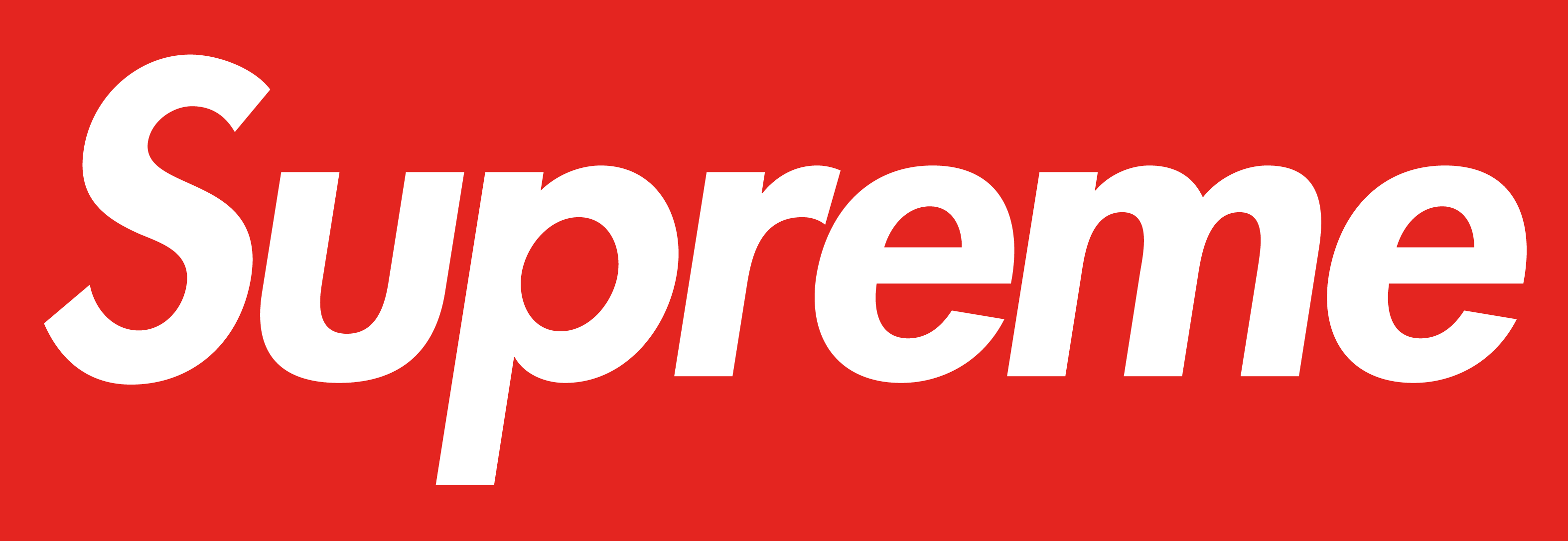 The logo of the clothing store "Supreme"